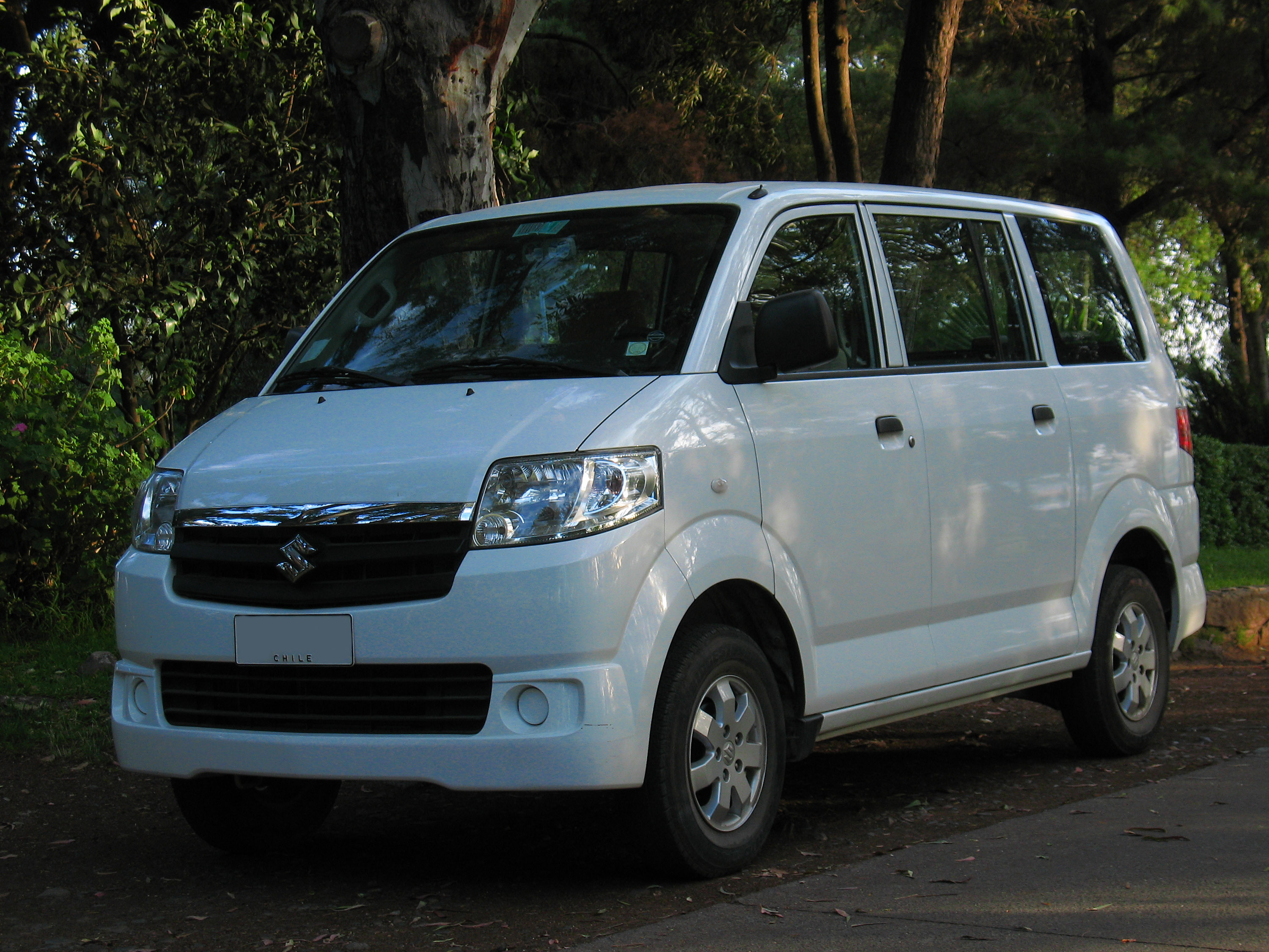 All Purpose Vehicle